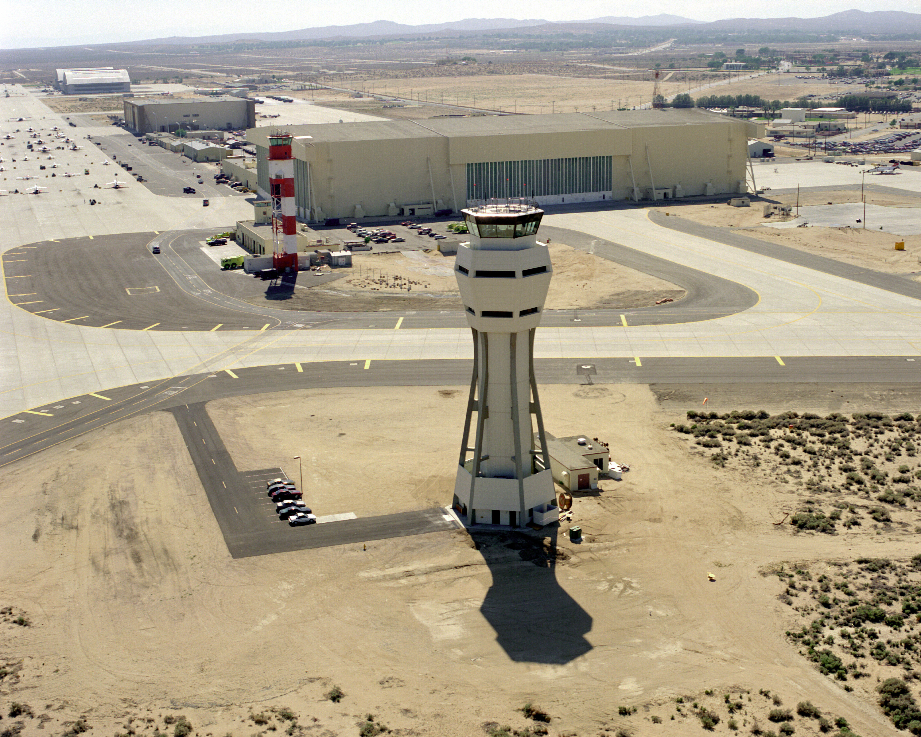 An aerial view of the new control tower, with the old tower in the background. Location: Edwards Air Force Base, California (CA), United States of America (USA).